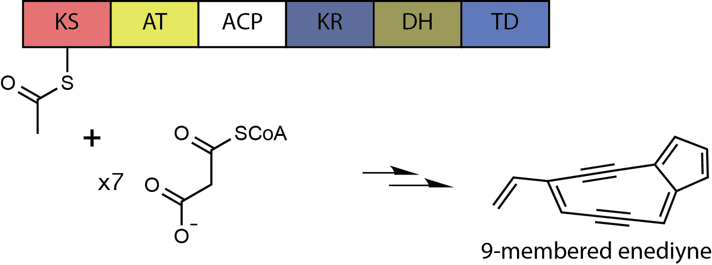 iterative PKS responsible for synthesis of calicheamicin enediyne core